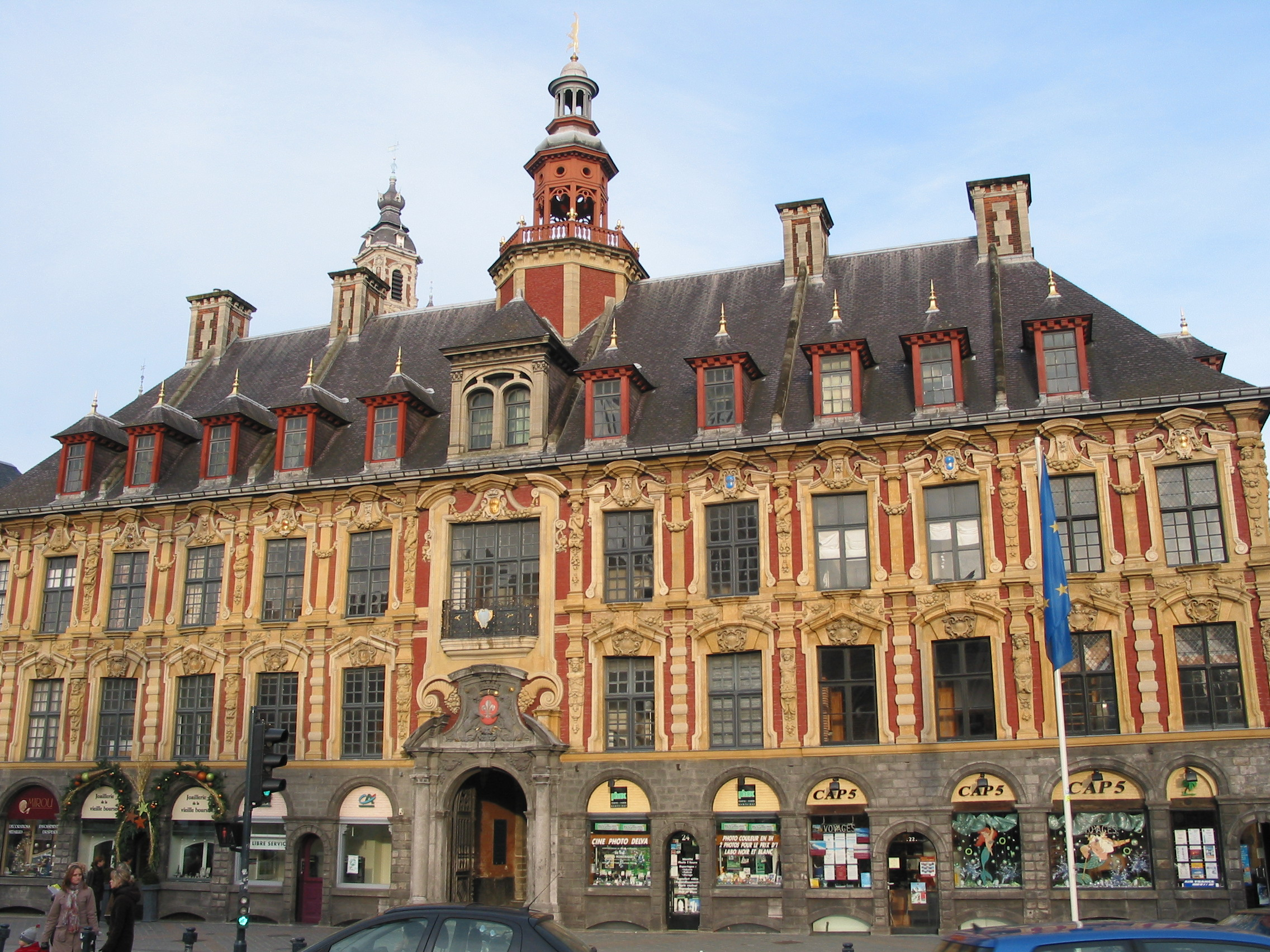 Lille (France), the Old Stock Exchange (1652-1653) and belfry of the Trade Chamber.